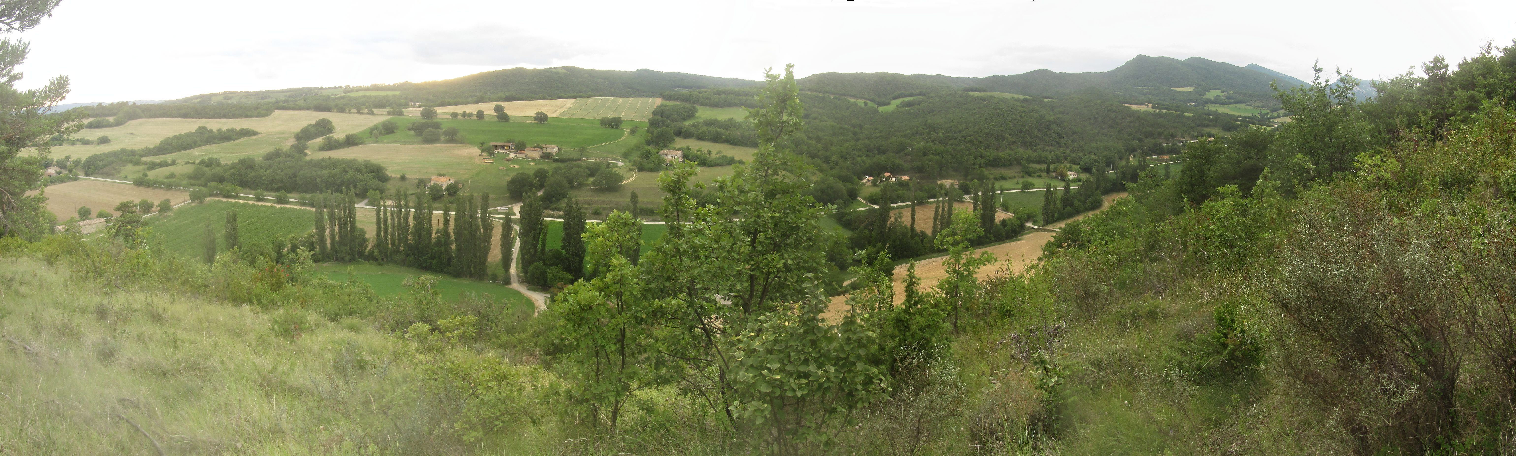 Cobonne Valley panorama, Drôme, France, Cobonne village fortress can slightly be seen at the right, just behind trees.